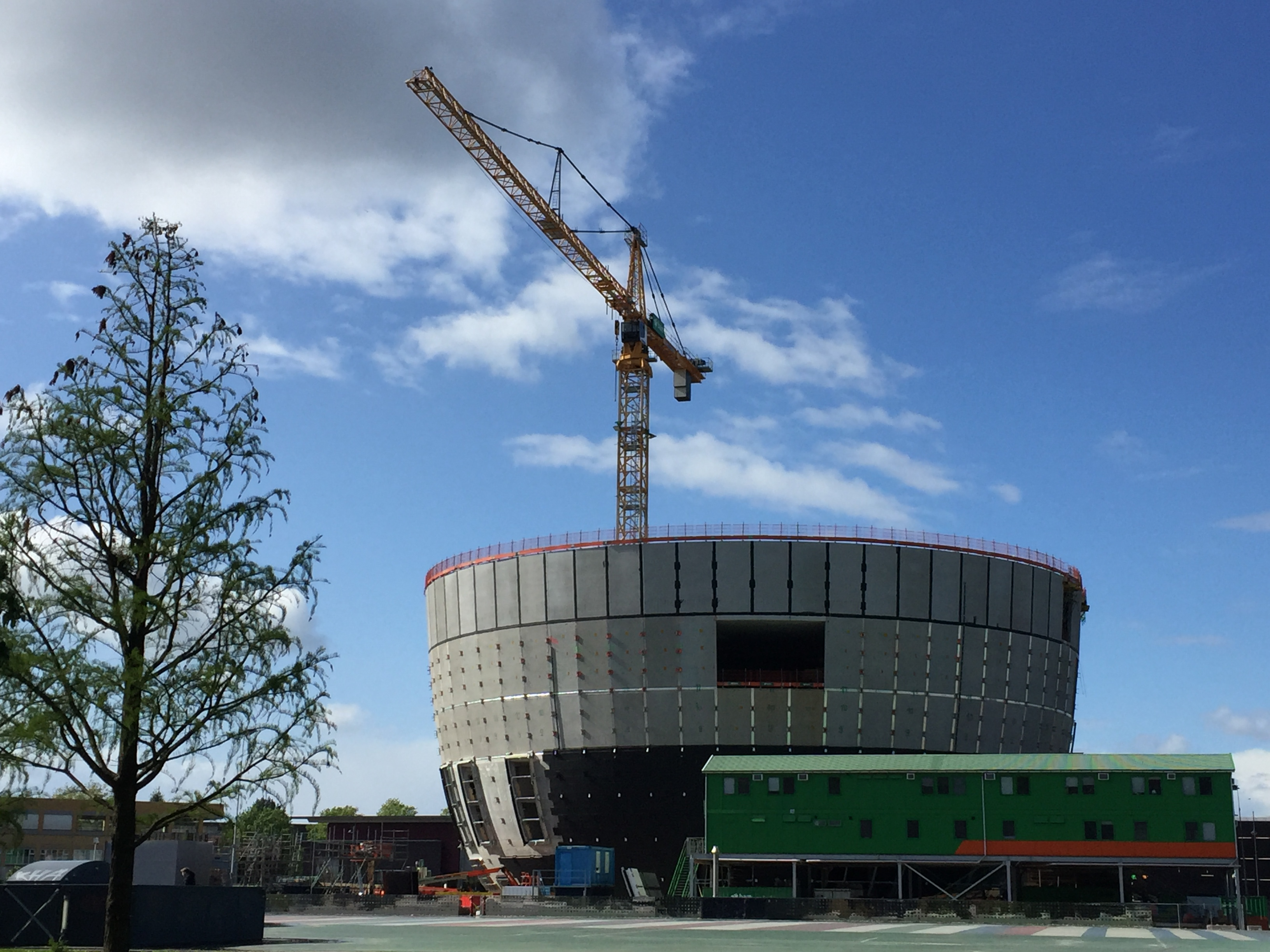 Depot Museum Boijmans Rotterdam 2019